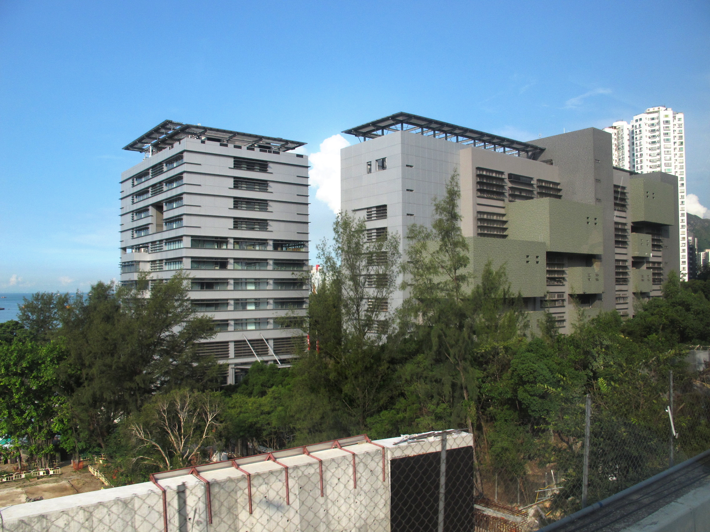 Castle Peak Bay Immigration Centre